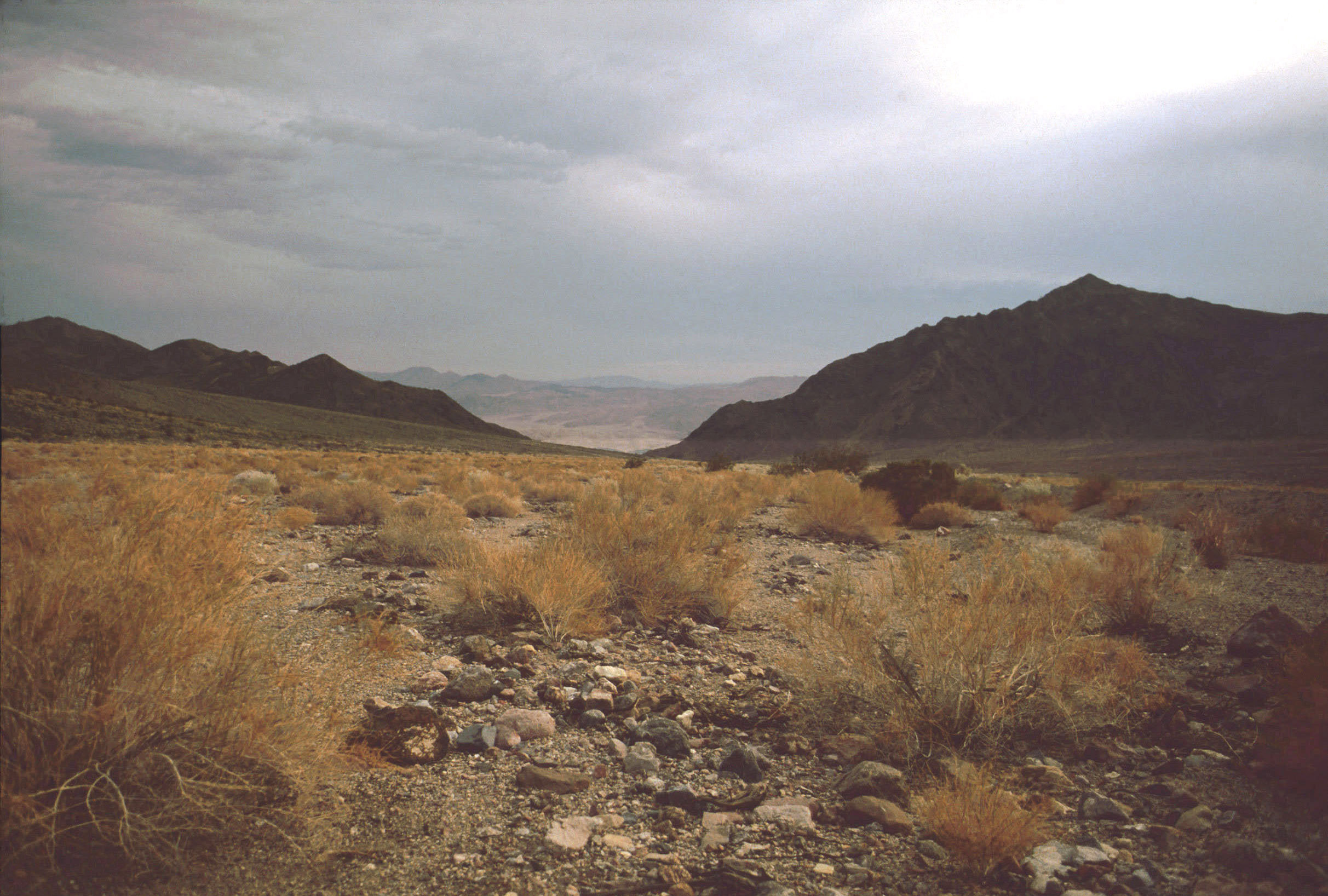 Death Valley,Jubilee Pass,at down